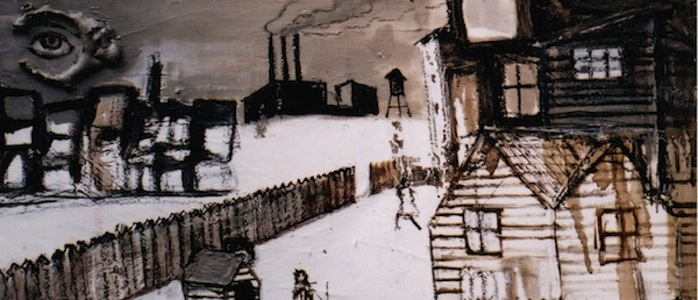 Paris based Dayton, Ohio artist Ealy Mays's depiction of the decline of the industial midwest where he was raised up